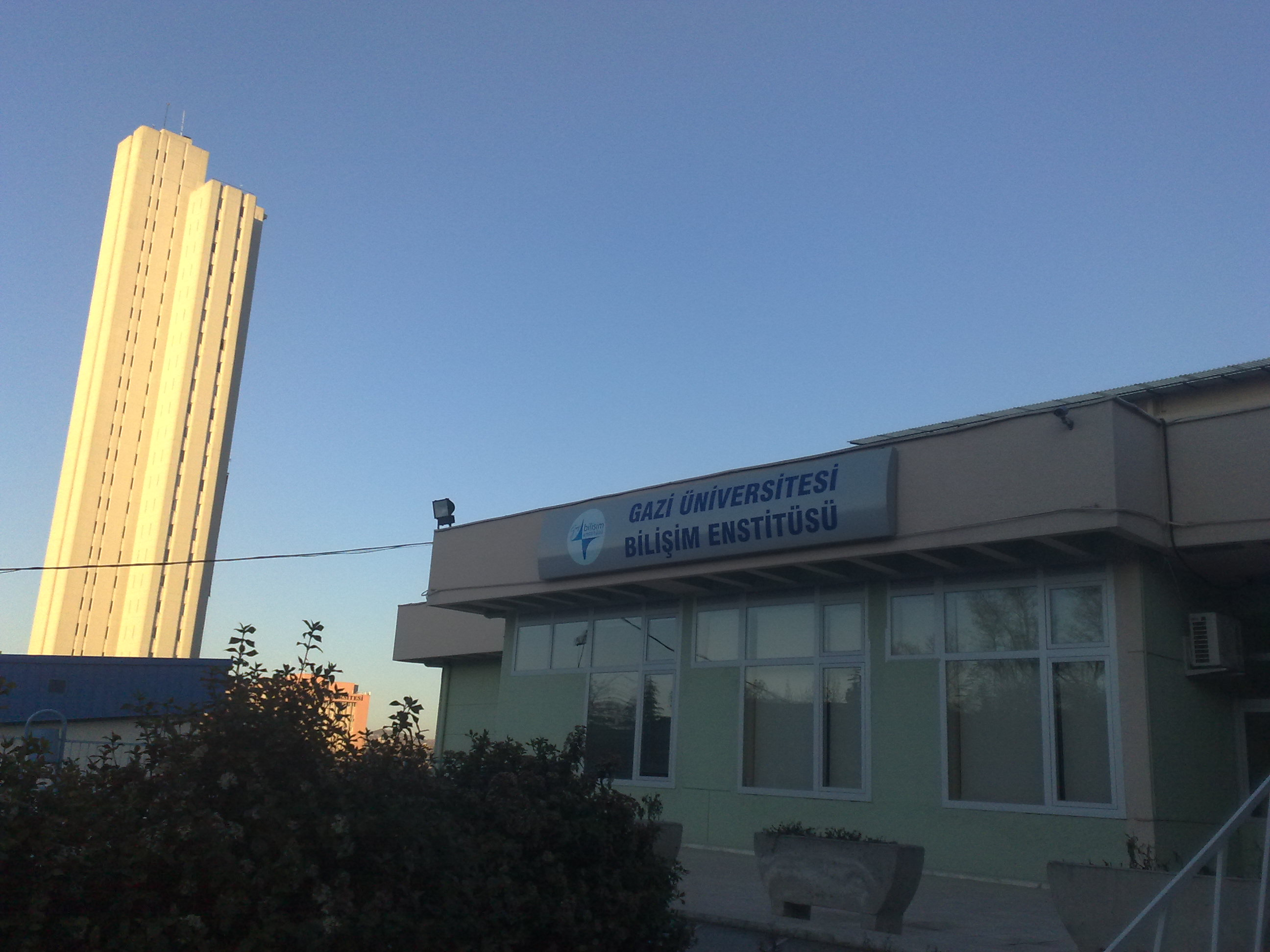 Gazi University-Graduate School of Informatics.